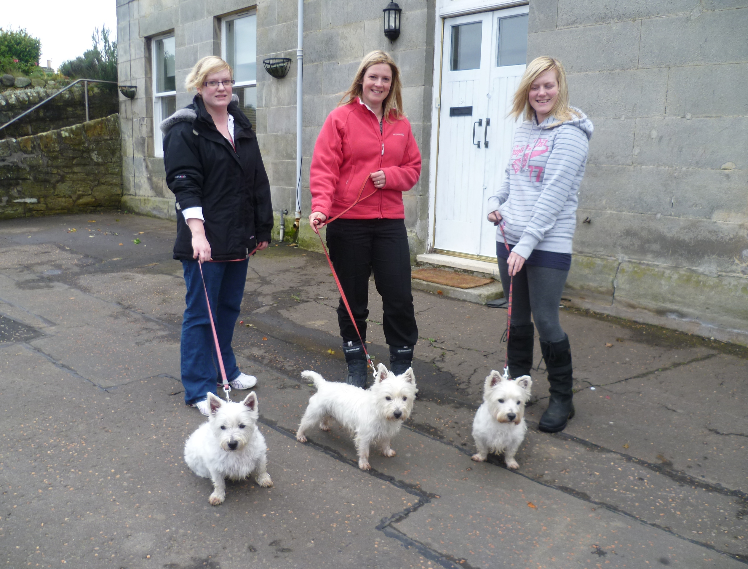 Three "Westies" (l. to r.) Molly (grandmother), Skye (granddaughter) and Tara (mother) taking their walkers (sisters Leslie, Linda and Elaine) through a village in Fife.